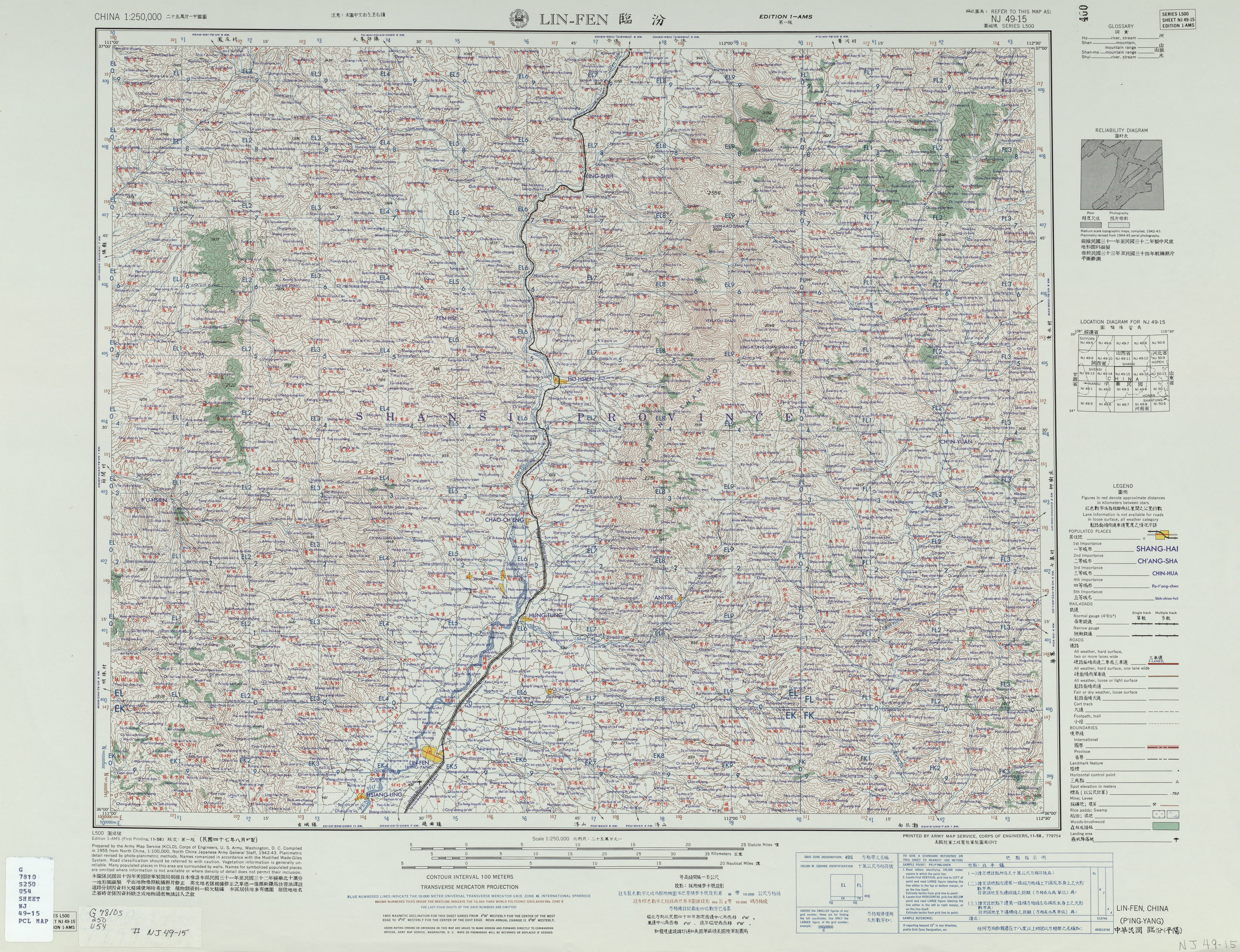 China AMS Topographic Maps